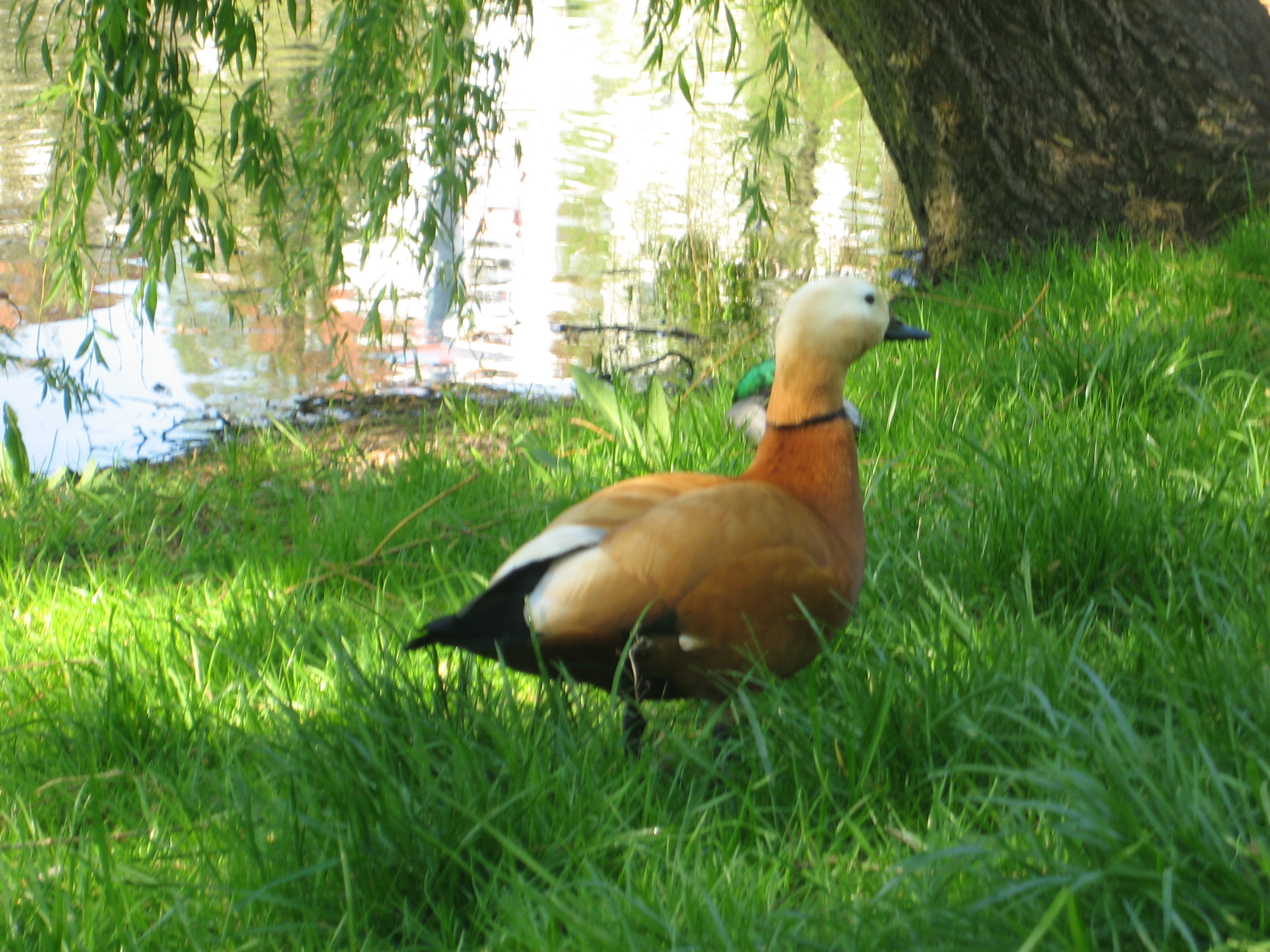 Shelduck (Tadorna ferruginea)at Lietzensee, Berlin. The bird might have failed the usual way or might be escaped from the nearby Zoo.